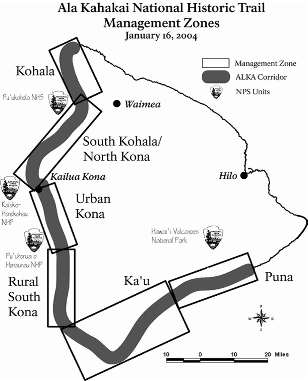 District map of the Ala Kahakai National Historic Trail on the Big Island of Hawaii